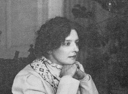 Gippius, Filosofov and Merezhkovsky in 1920 in Warsaw